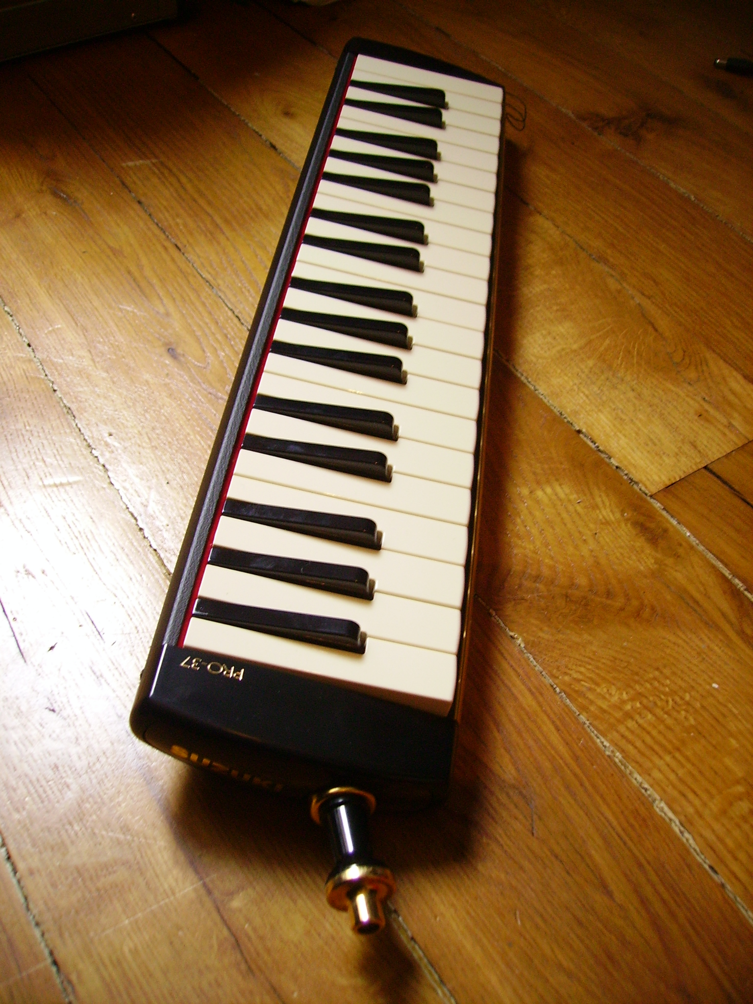 Suzuki melodion PRO-37